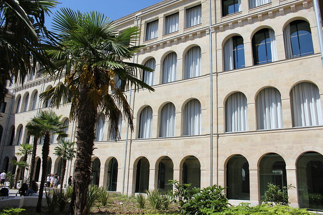 Facade of the médiathèque Françoise Sagan